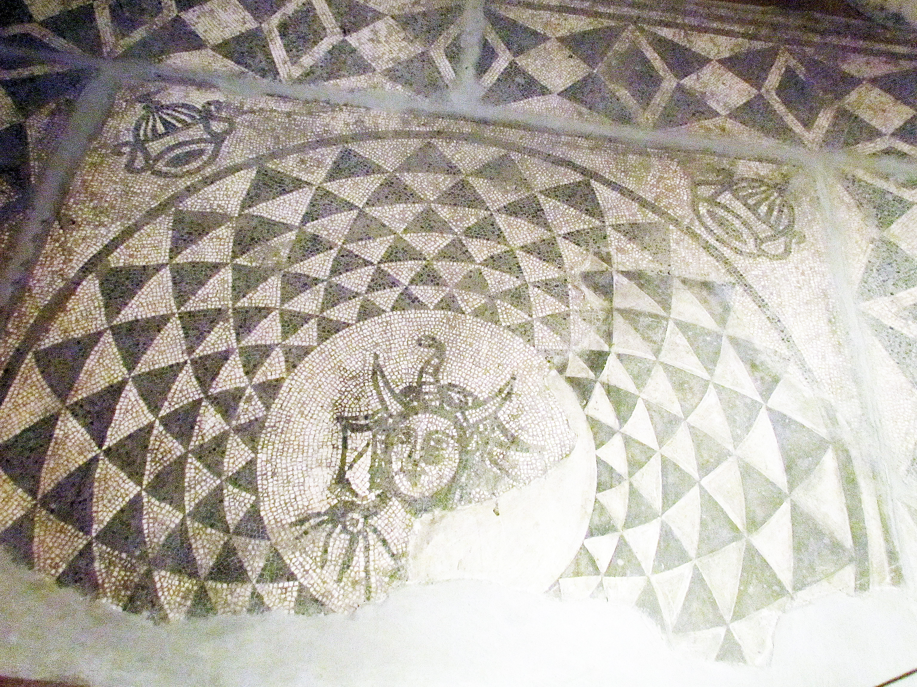 Allegory of Africa (Roman mosaic,1st century AD) Castello Ursino, Catania, Sicily (photo: Mihailo Grbic).